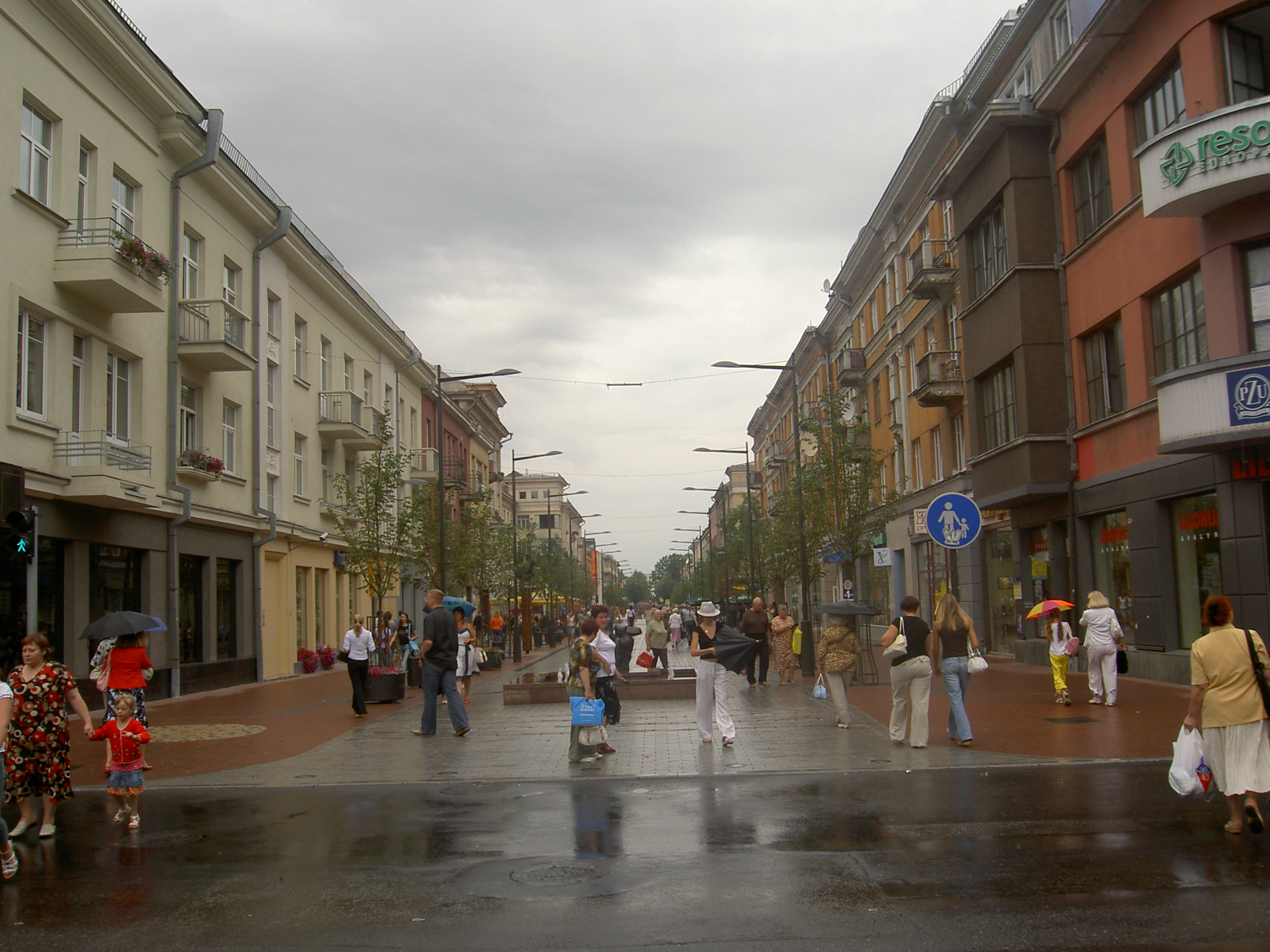 Vilnius Street in Šiauliai (Lithuania)